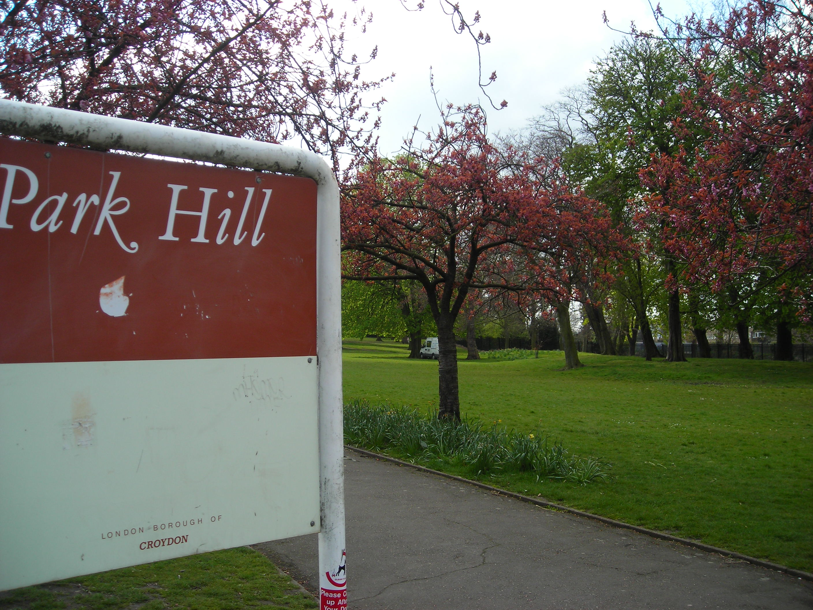 Park Hill Recreation Ground sign in Croydon